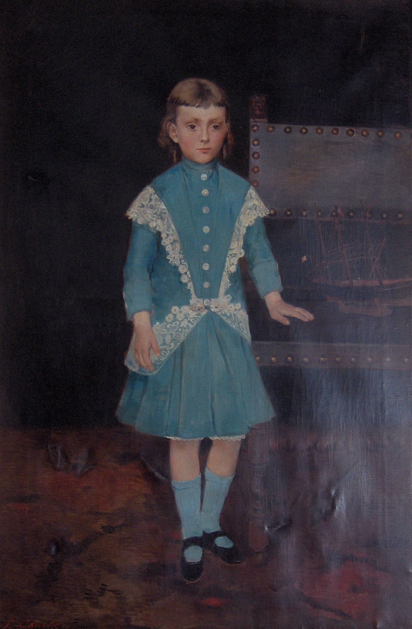 "Young girl", oil painting by Frantz Charlet (1862-1928); private collection